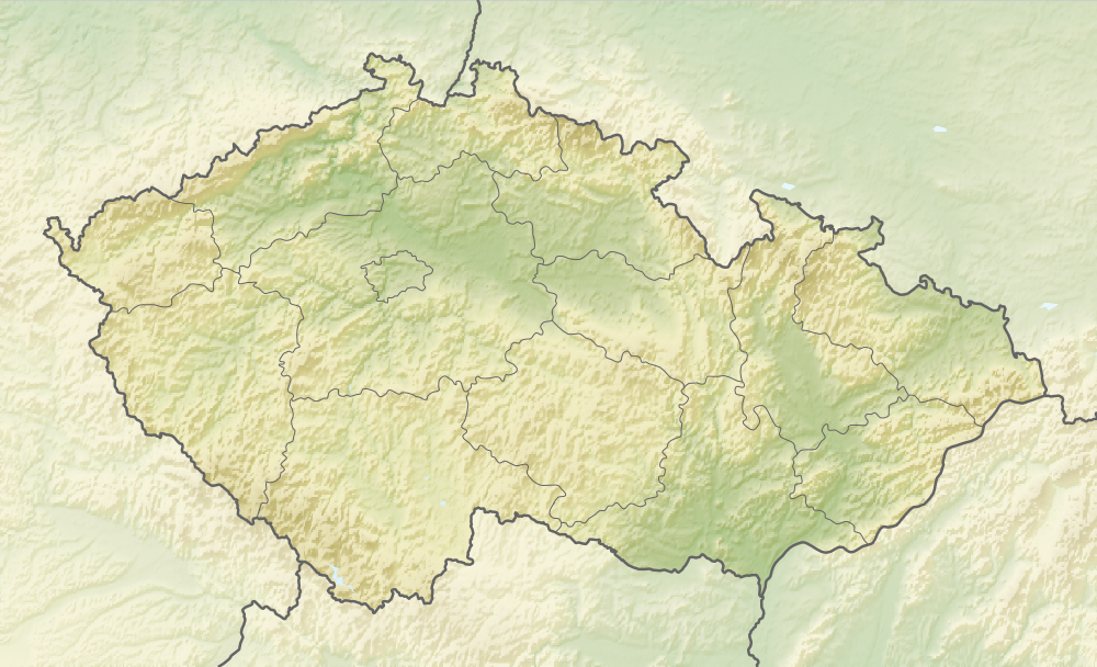 Relief map of the Czech Republic Equirectangular projection, N/S stretching 150 %. Geographic limits of the map: N: 51.3° N S: 48.3° N W: 11.8° E O: 19.2° E